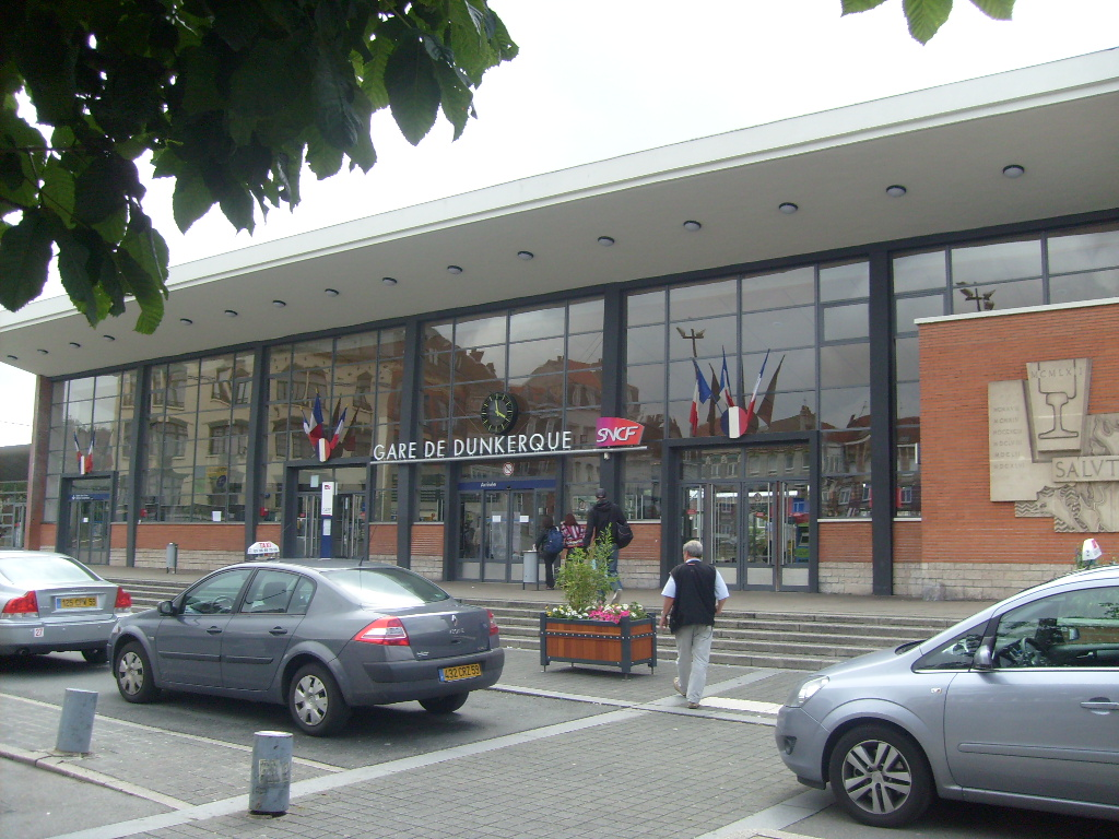 Station of Dunkirk